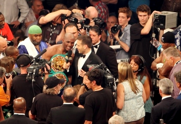 Bernard Hopkins interviewed by Max Kellerman after the Jean Pascal fight.